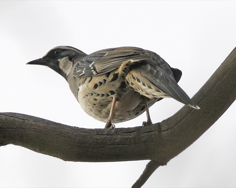 Spotted Quail-thrush Cinclosoma punctatum Brisbane Ranges, Victoria, Australia 10th. November 2008 690V6108